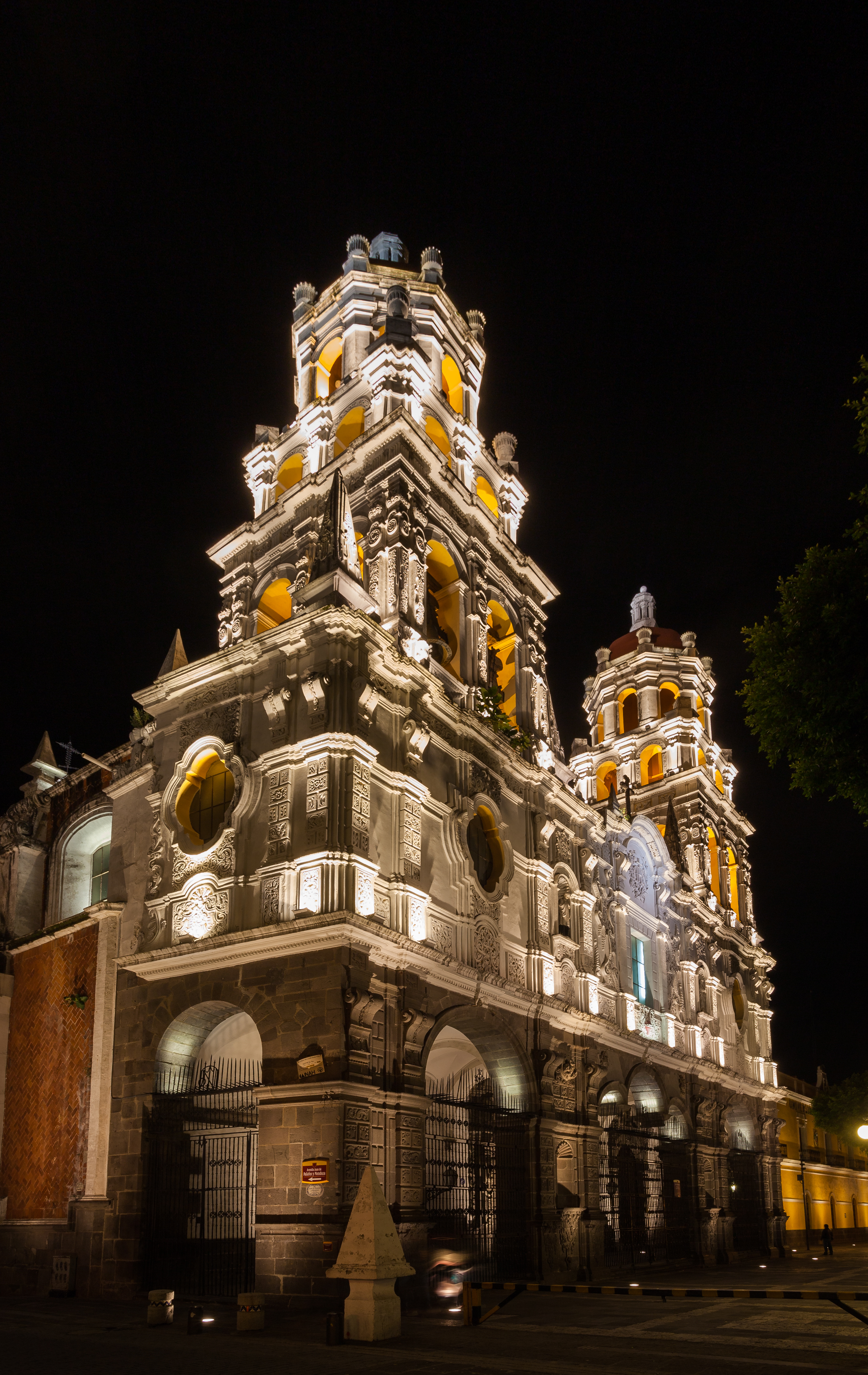 La Compañia Church, Puebla, Mexico